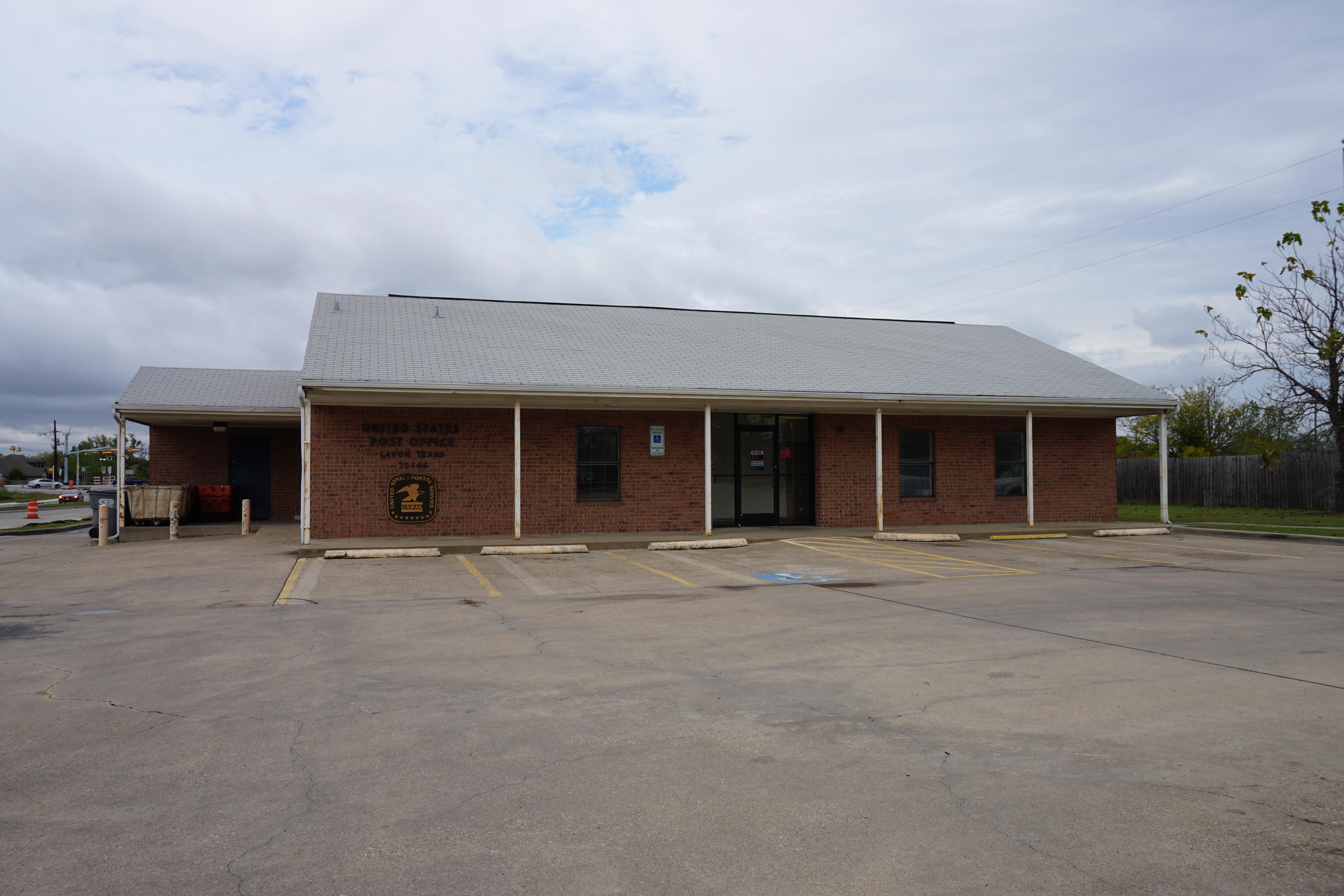 The United States Post Office in Lavon, Texas (United States).